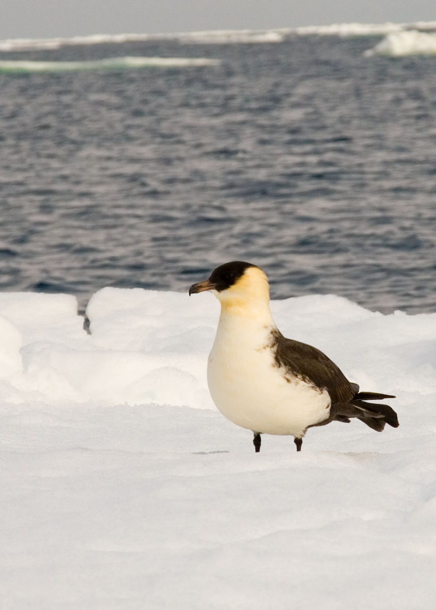 Pomarine Skua (Stercorarius pomarinus) at Bering Sea